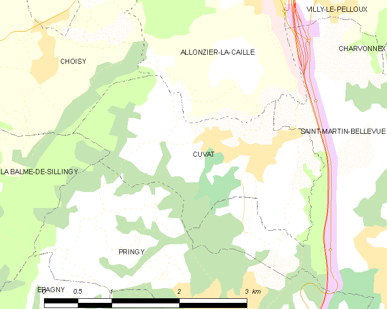 Map of French municipality Cuvat